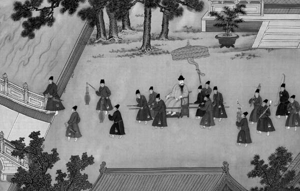 Ming Emperor Xuande with his imperial eunuchs